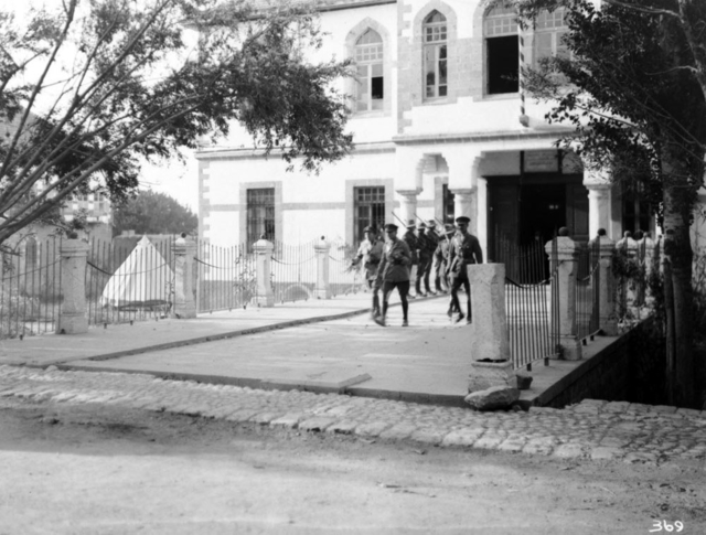 General Chauvel leaving his headquarters. Photo DMC ghq Damascus.